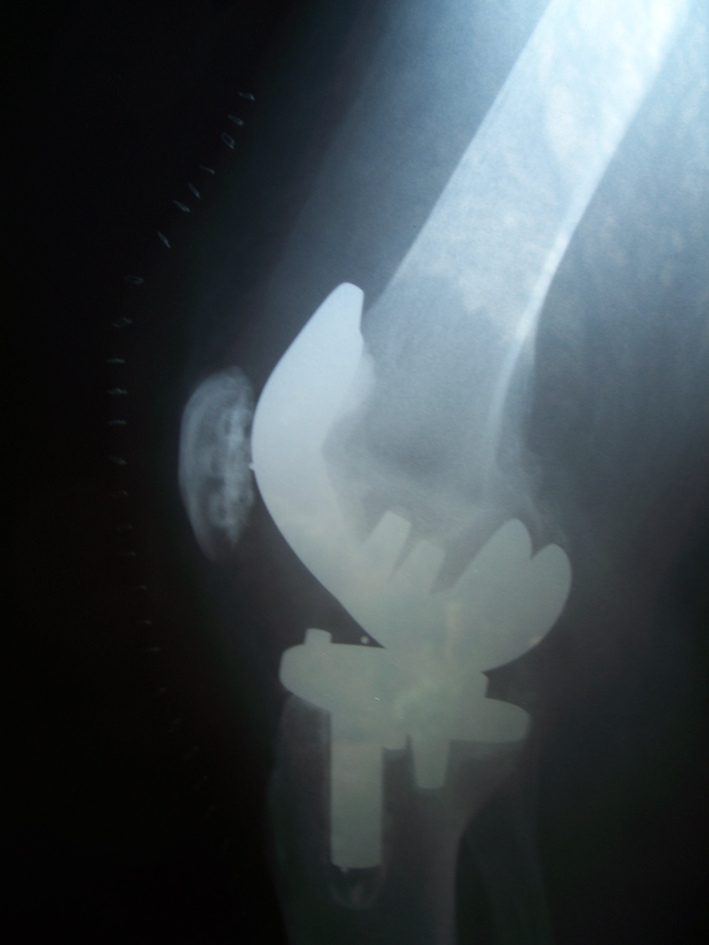 Total knee replacment, a lateral X-ray in a elderly woman.